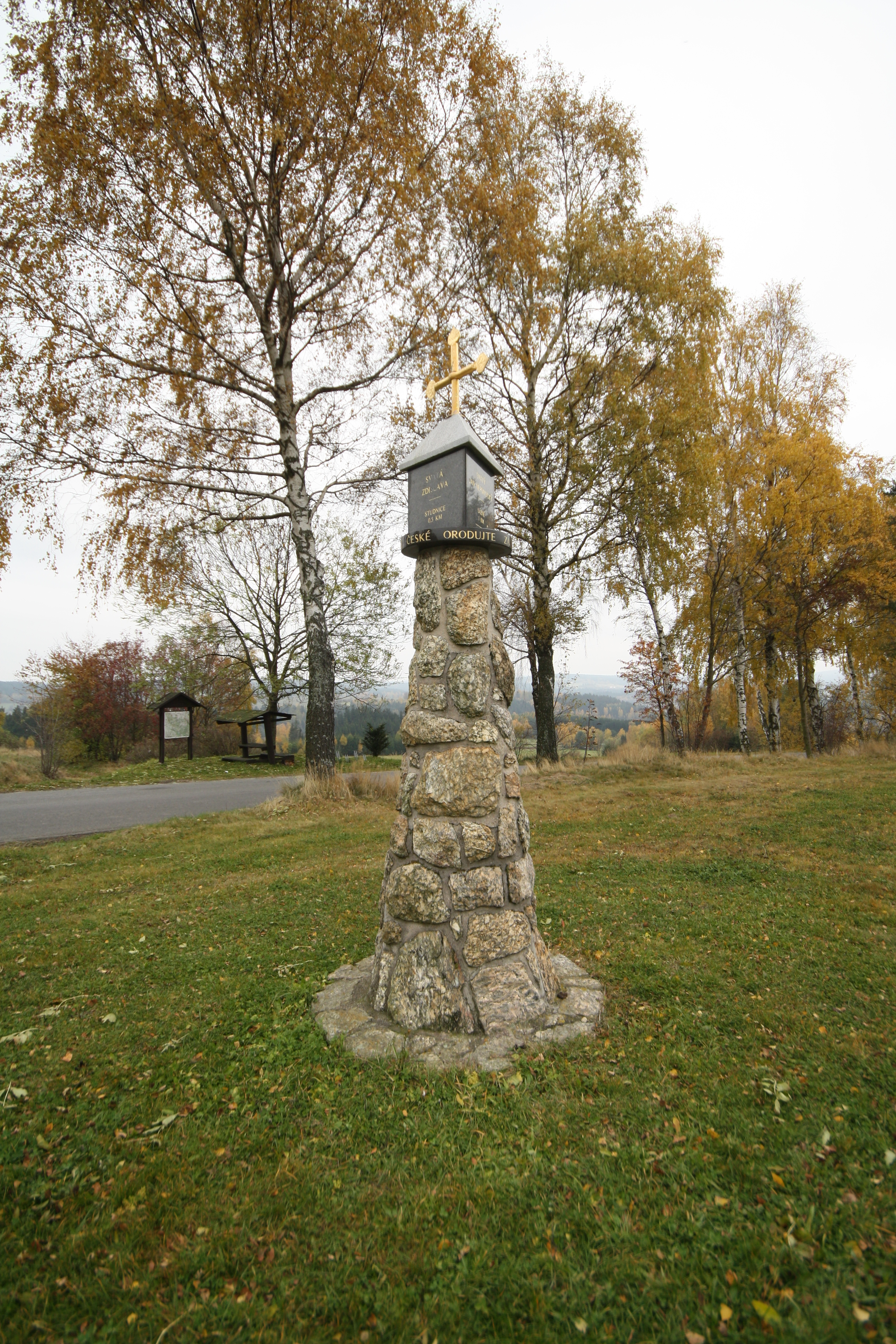 Structure of Central of the Czech republic near Studnice, Chrudim District.